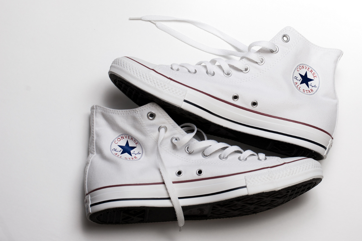 A pair of Converse Chuck Taylors